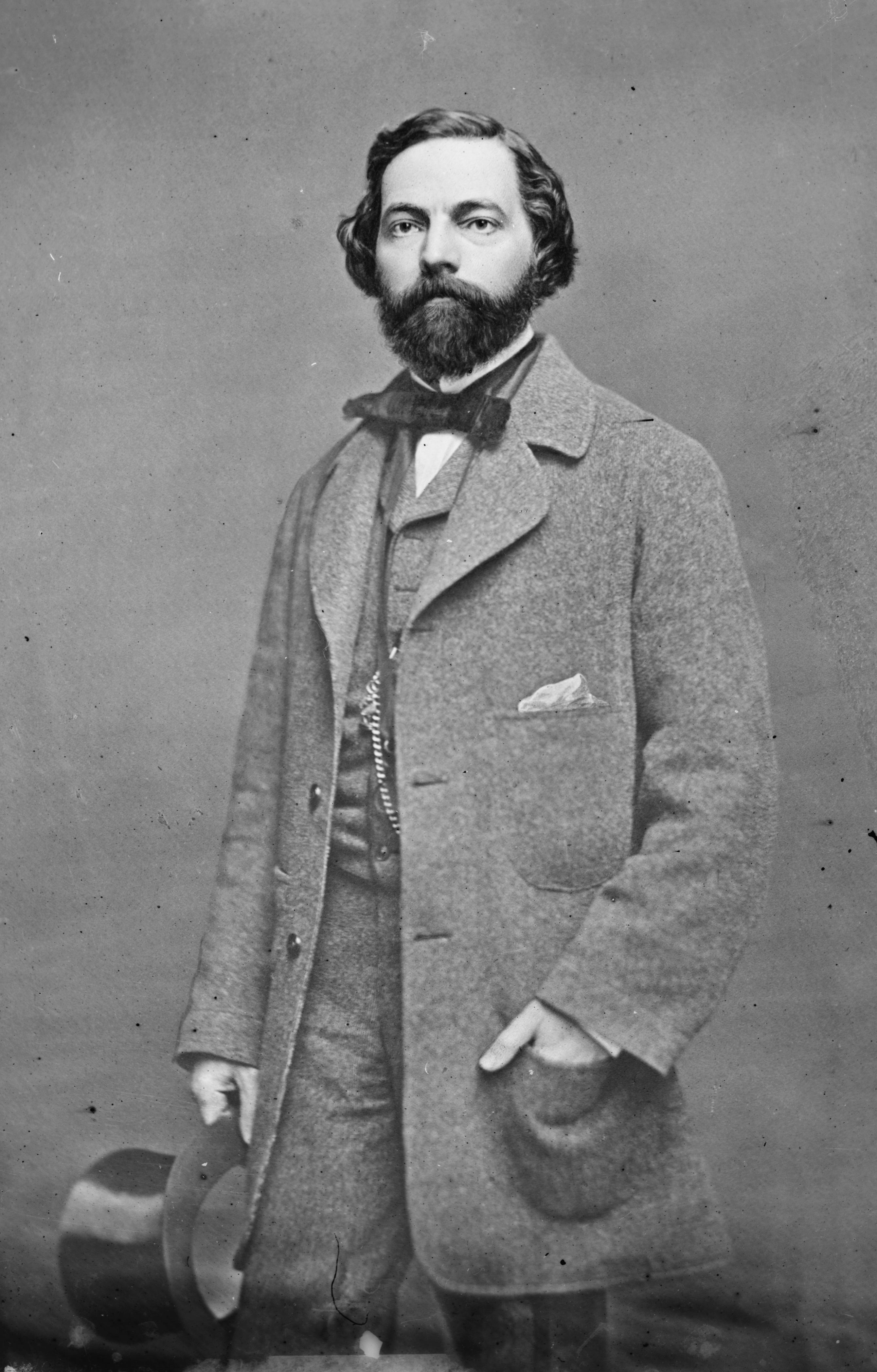 William Porcher Miles. Library of Congress description: "Hon. Wm. P. Miles of S.C."